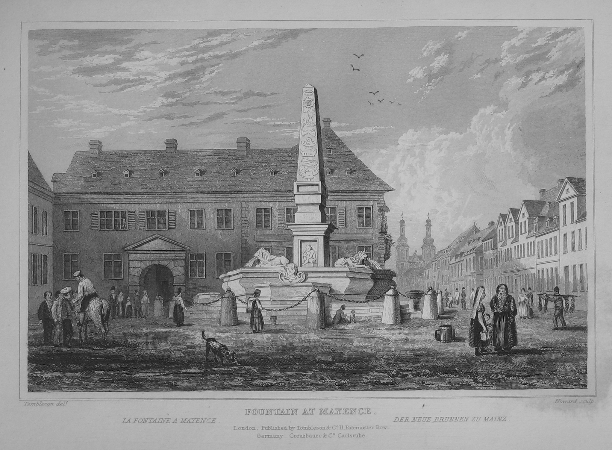 Steel engraving from "Views of the Rhine" by William Tombleson (around 1840): Town of Mainz, Neubrunnen square